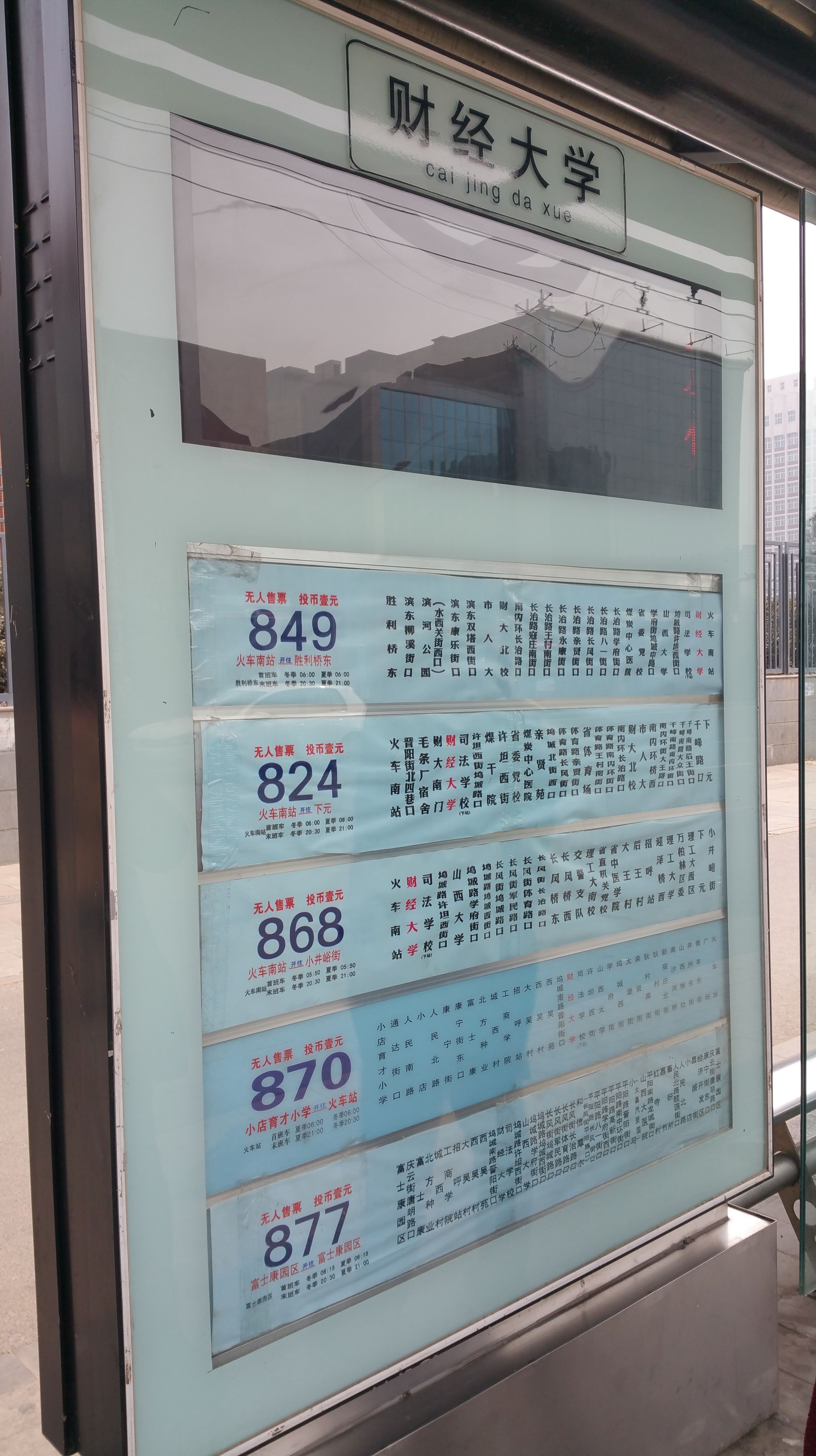 The bus schedule of Shanxi University of Finance and Economics at Taiyuan